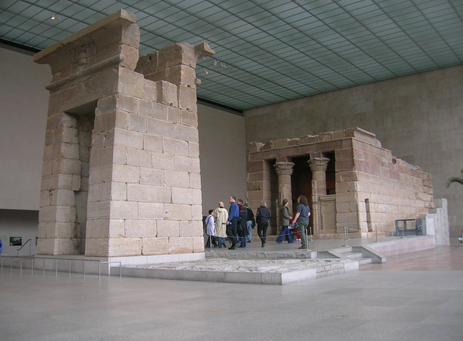 The Temple of Dendur, in the Metropolitan Museum of Art, New York.